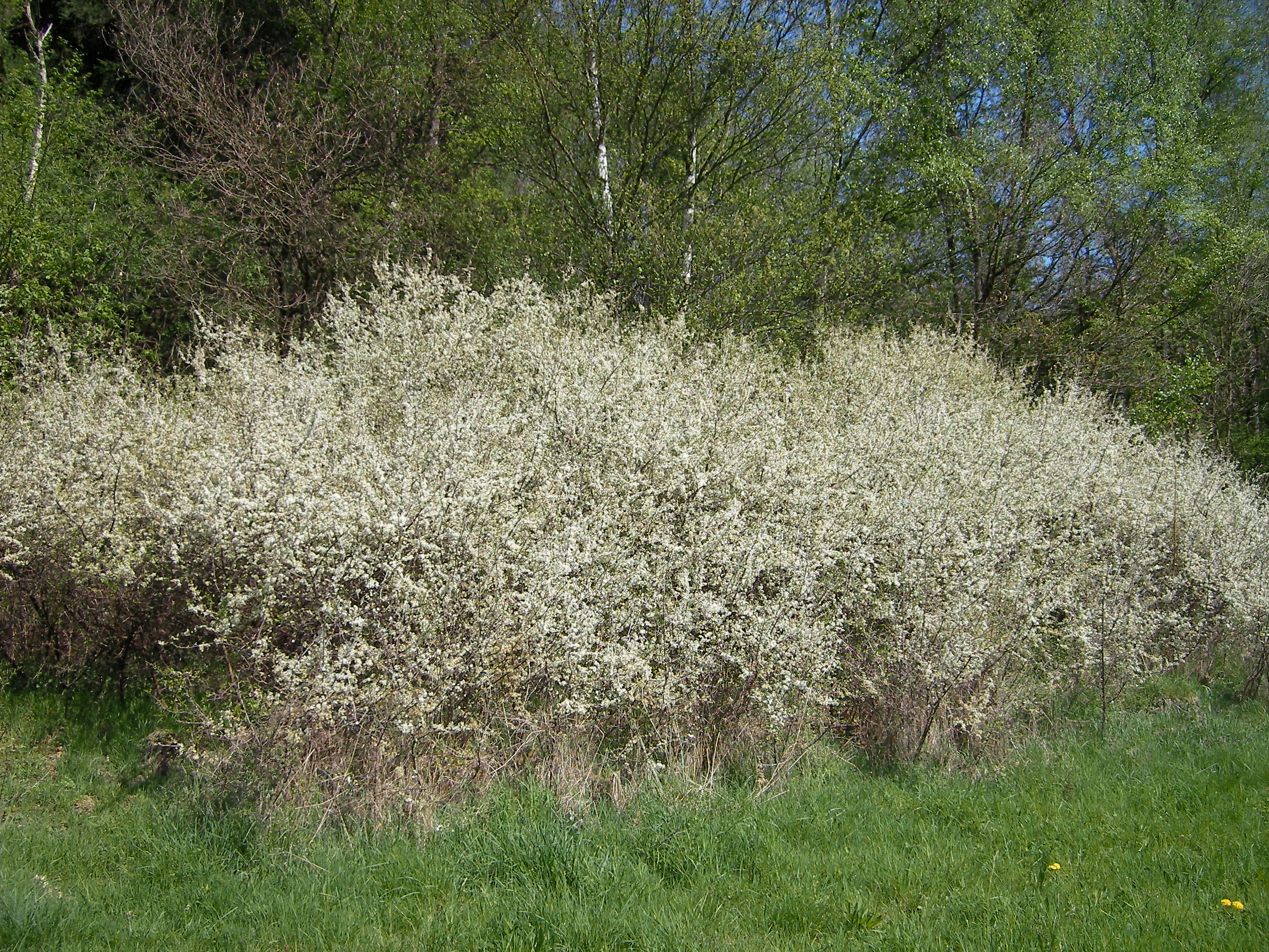 Prunus spinosa